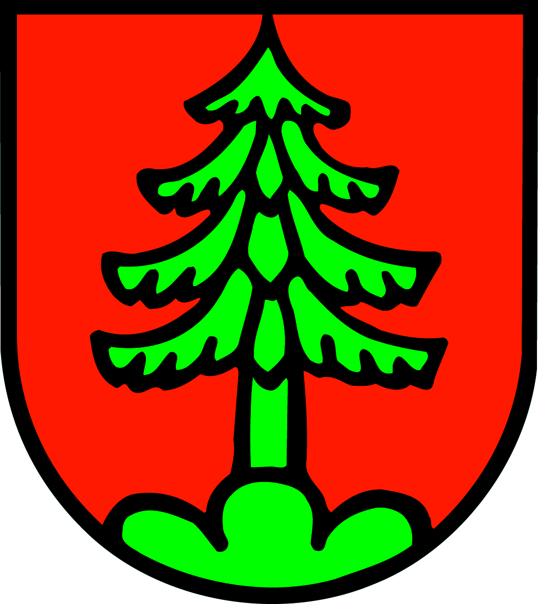 Coat of arms of Category:Mosnang, canton of St. Gallen, Switzerland